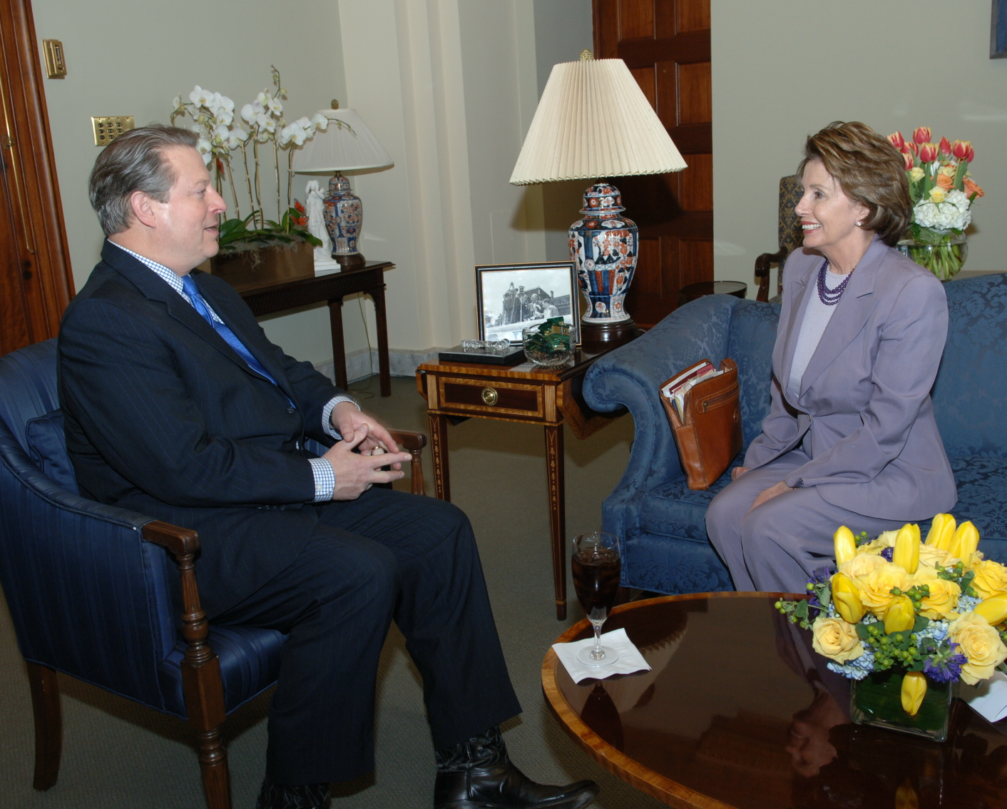 Al Gore and Nancy Pelosi